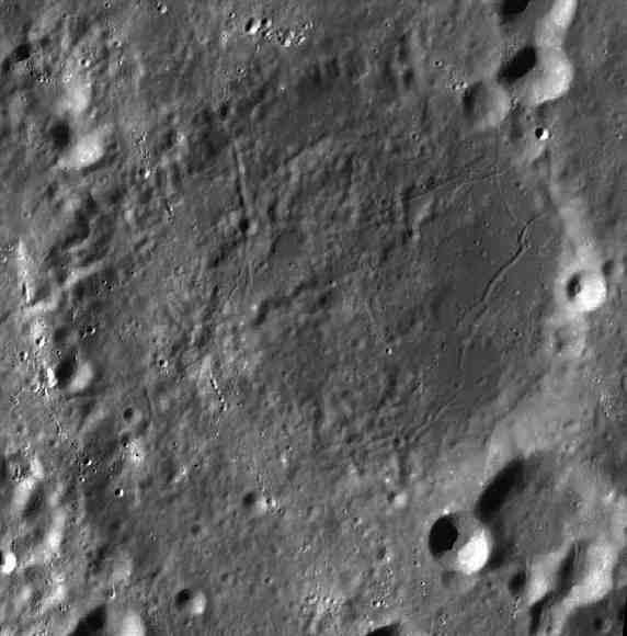 Extract from the chart LAC-111